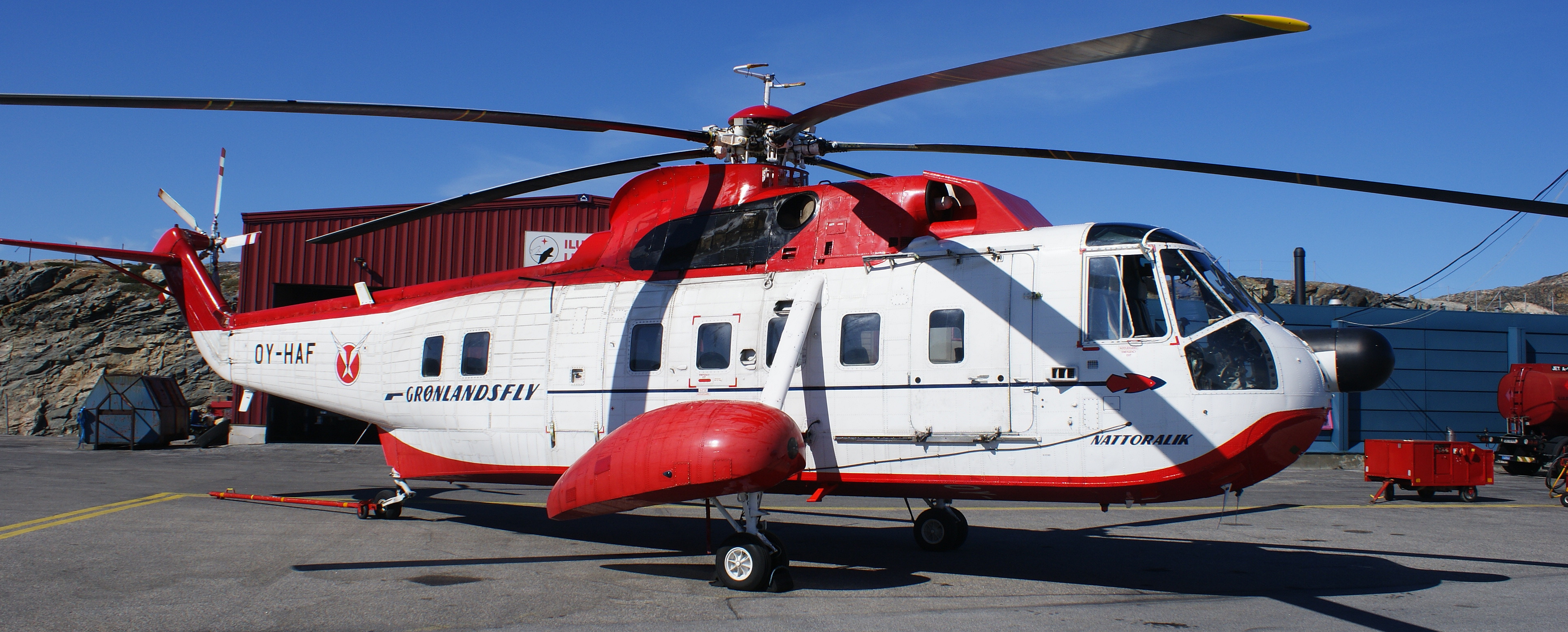 The Air Greenland Sikorsky S-61N Nattoralik helicopter (in old livery) stationed in Ilulissat Airport, Greenland.